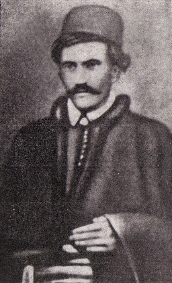 Frano Zubić, a Bosnian Franciscan, as parish priest in Turska Gradiška in 1855 Srpskohrvatski / српскохрватски: Fra Frano Zubić, bosanski franjevac, kao župnik Turske Gradiške 1855. godine. / Фра Франо Зубић, босански фрањевац, као жупник Турске Градишке 1855. године.